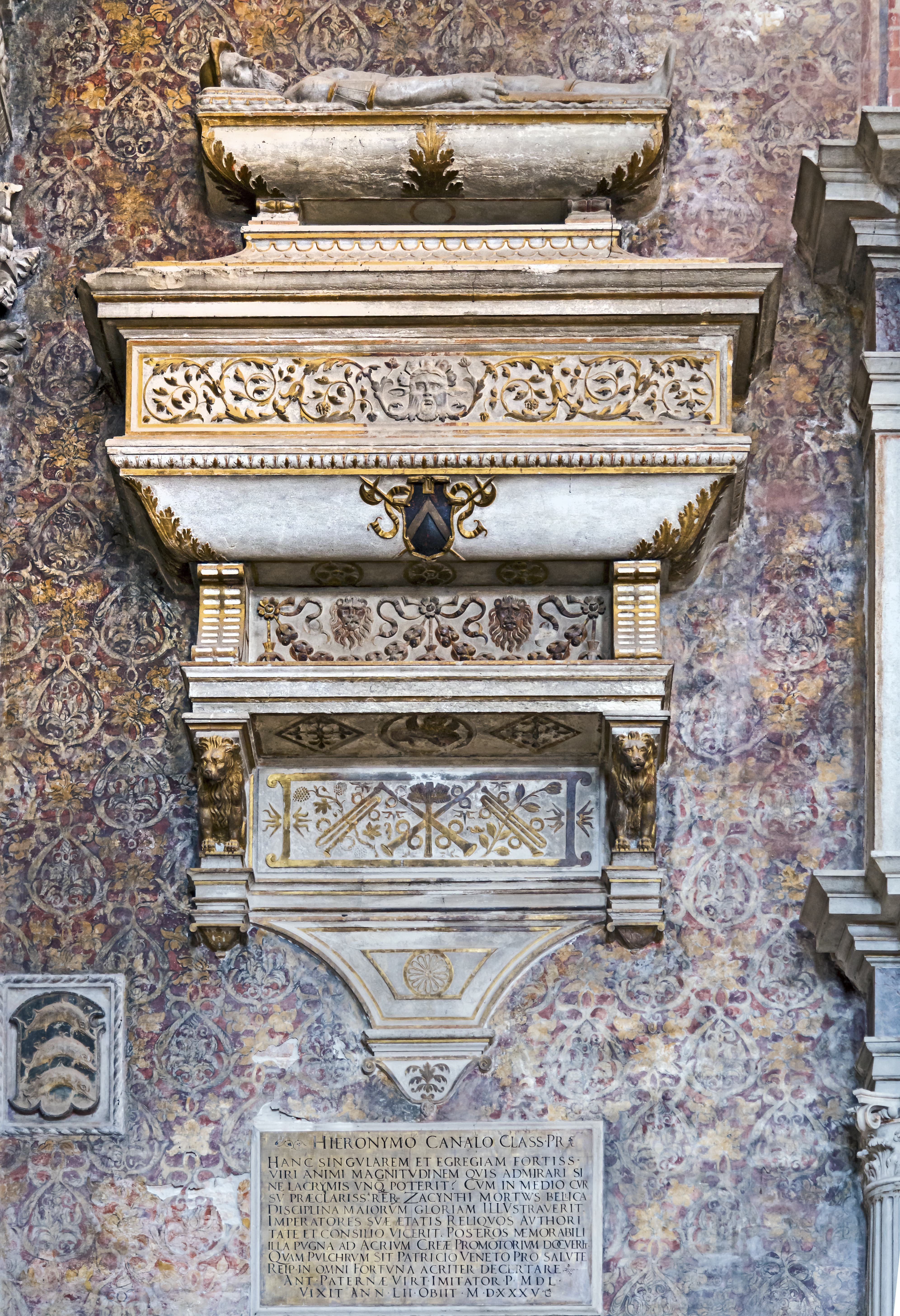 Santi Giovanni e Paolo in Venice. Monument to Girolamo da Canal. Venetian school first half of the sixteenth century.